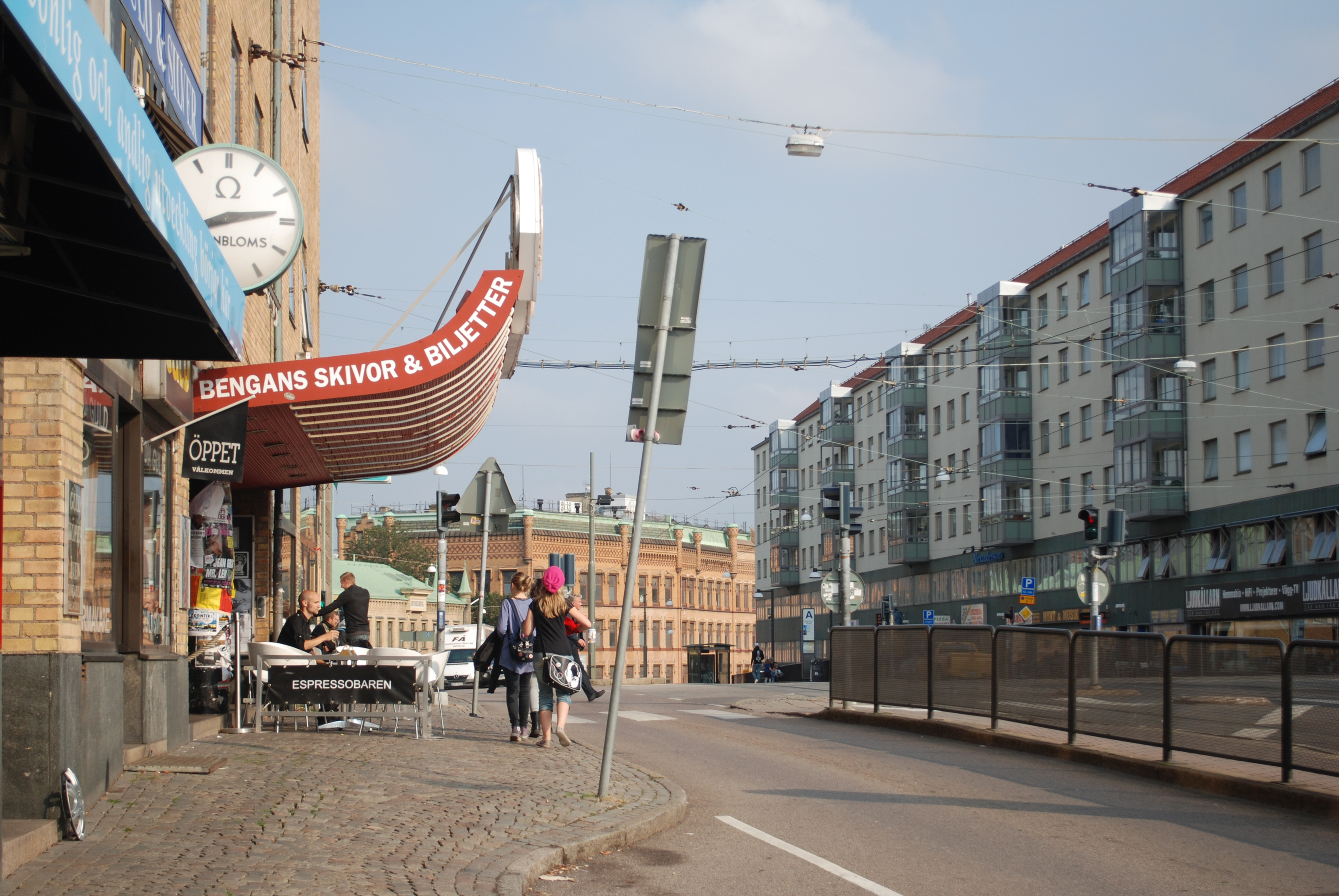 Stigbergsliden, from Stigbergstorget.